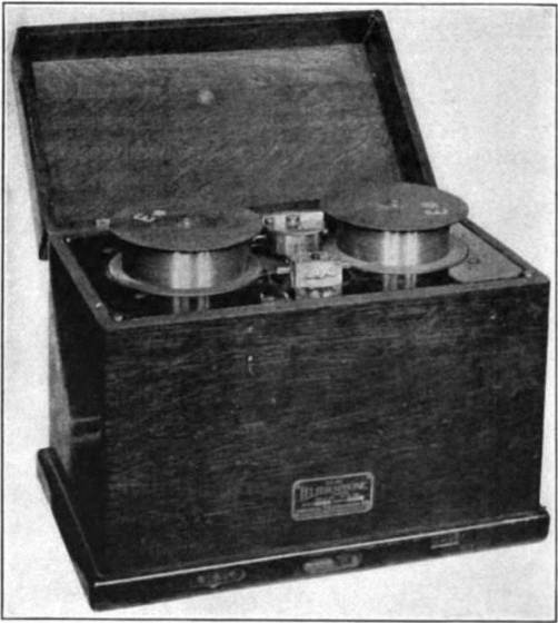 A Telegraphone steel wire recorder, the first audio magnetic recording technology, invented in 1898 by Danish-American engineer Valdemar Poulsen. Working similarly to a tape recorder, the fine steel wire unwinds from one reel, passes though a recording head, and is wound onto the other reel. In the head, the audio signal to be recorded passes through an electromagnet, creating a varying magnetic field. This creates a varying magnetization in the wire which is a record of the instantaneous sound amplitude. To play it back the wire is passed through a playback head where another electromagnet detects the varying magnetization and translates it back to a varying electrical signal, which is amplified and applied to a loudspeaker. Wire recorders had poor audio quality and were replaced by magnetic tape recording in the 1940s. This example from 1922 was used by the RCA transatlantic telegraph operations center in New York to record incoming high speed Morse code radiotelegraph messages from Europe at 100 WPM, which were then replayed at lower speed to telegraph operators who translated it into text and typed it onto telegram forms to be sent to the recipient.